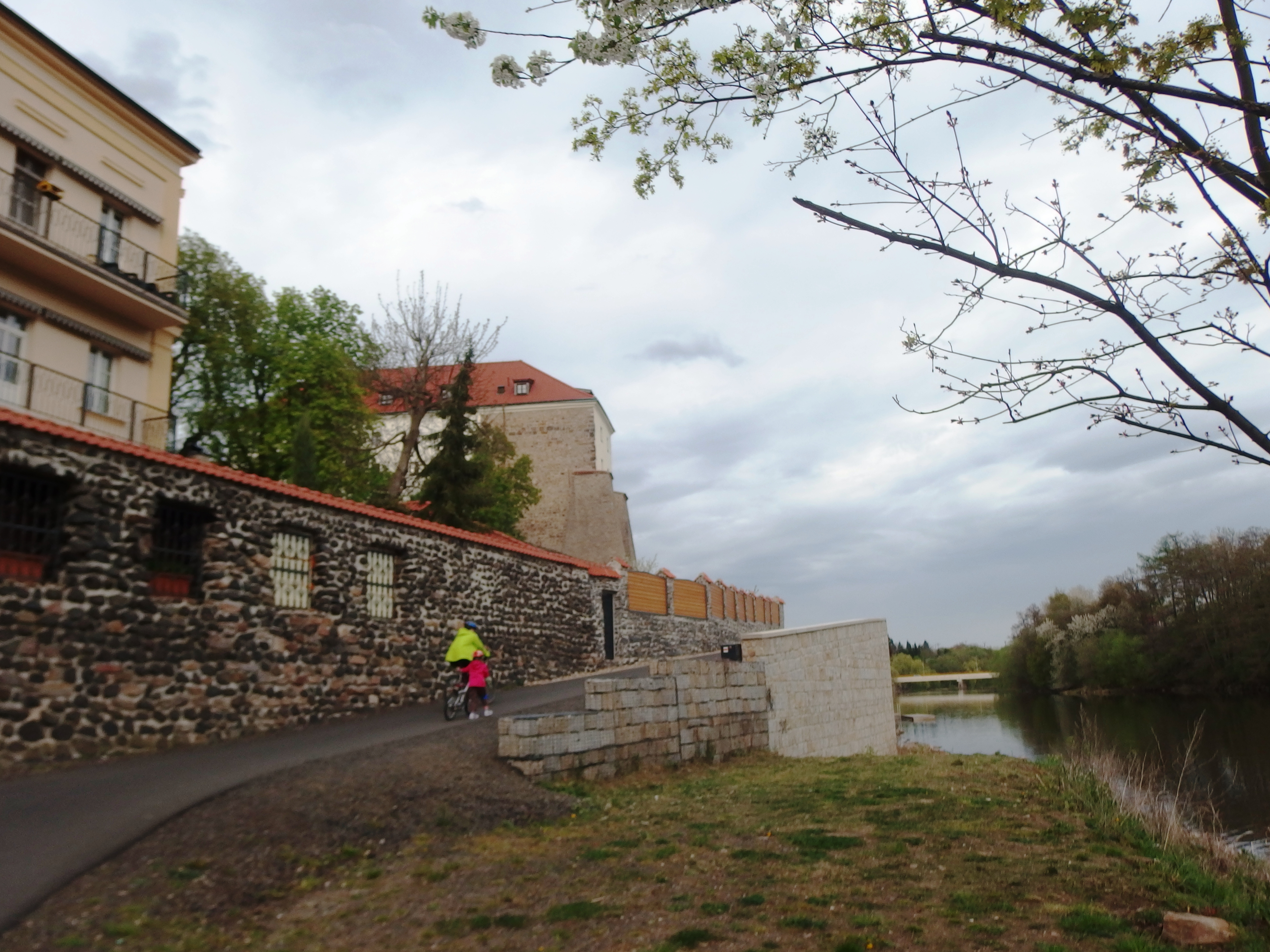 Kadaň, Chomutov District, Czech Republic.